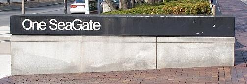 Photographer: Wpktsfs Where: One SeaGate, Toledo, Ohio, USA Date: Saturday, March 24, 2007 What: One SeaGate sign, taken from driveway DISCLAIMERS: Please, as a courtesy, E-mail me where you are using the picture, and what for.